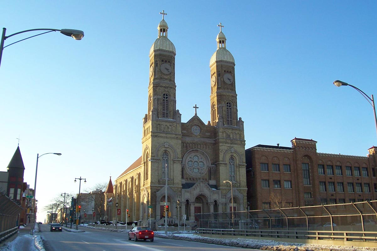 Copyright © 2005 Sulfur St. Stanislaus Catholic Church located in the historic Mitchell Street District of Milwaukee, Wisconsin.